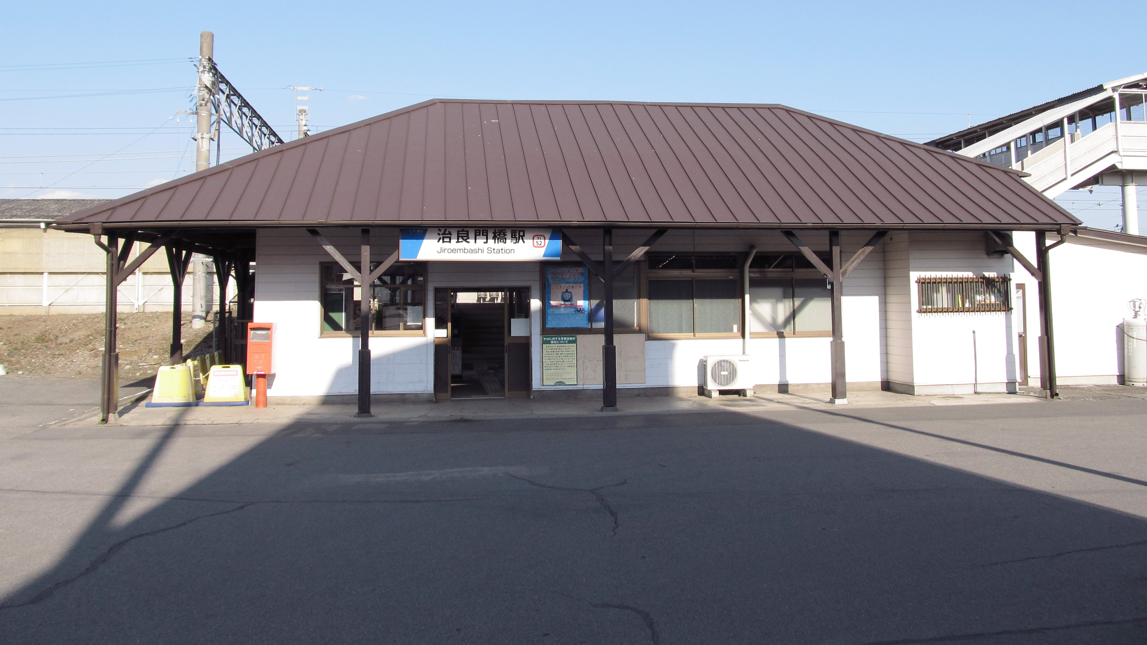 The building of Jiroembashi Station on the Tobu Railway Kiryū Line in Ōta city, Gumma prefecture, Japan